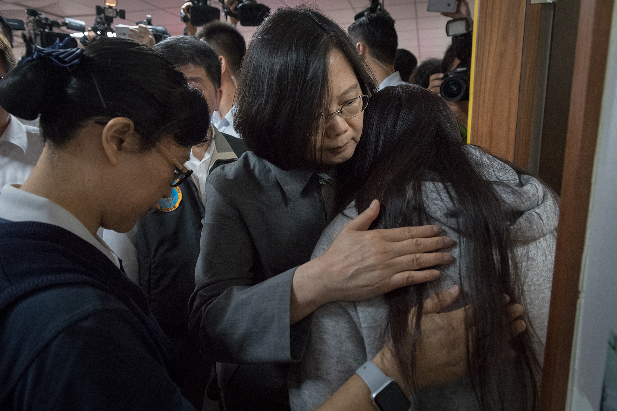 Official Photo by Makoto Lin / Office of the President